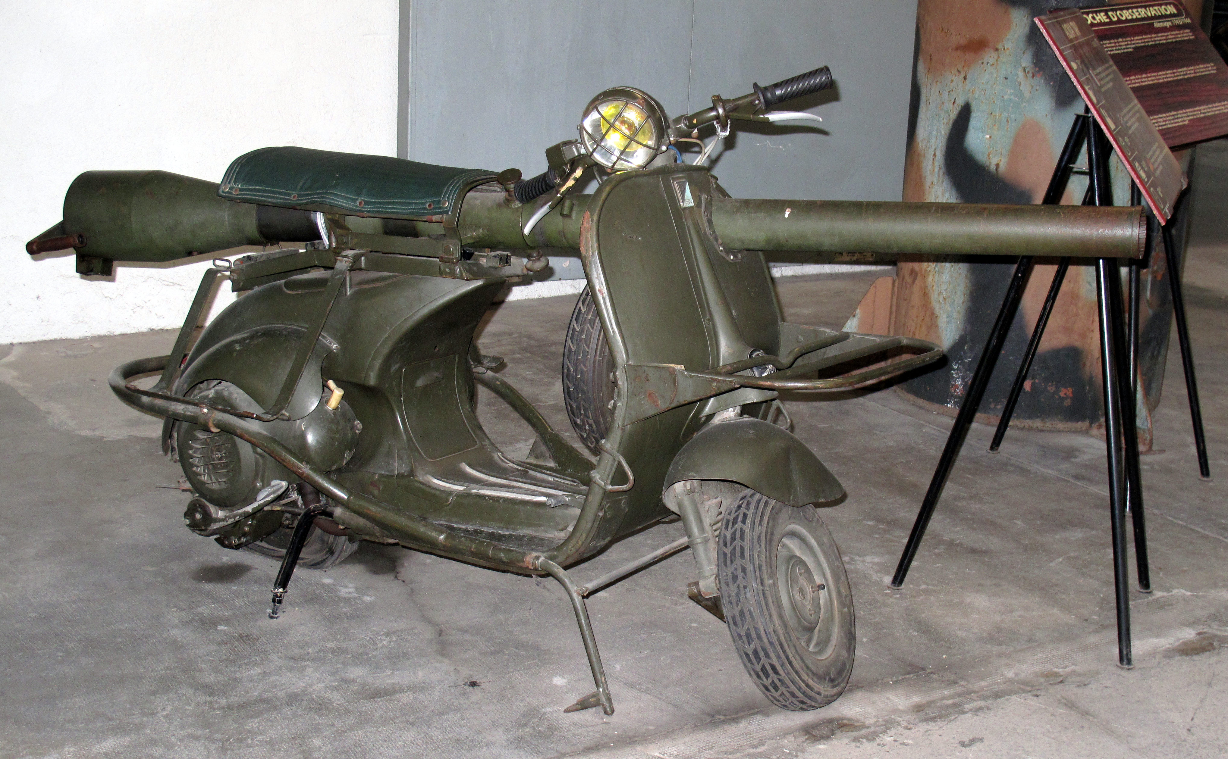 Vespa 150 TAP. On display at Saumur Général Estienne museum.